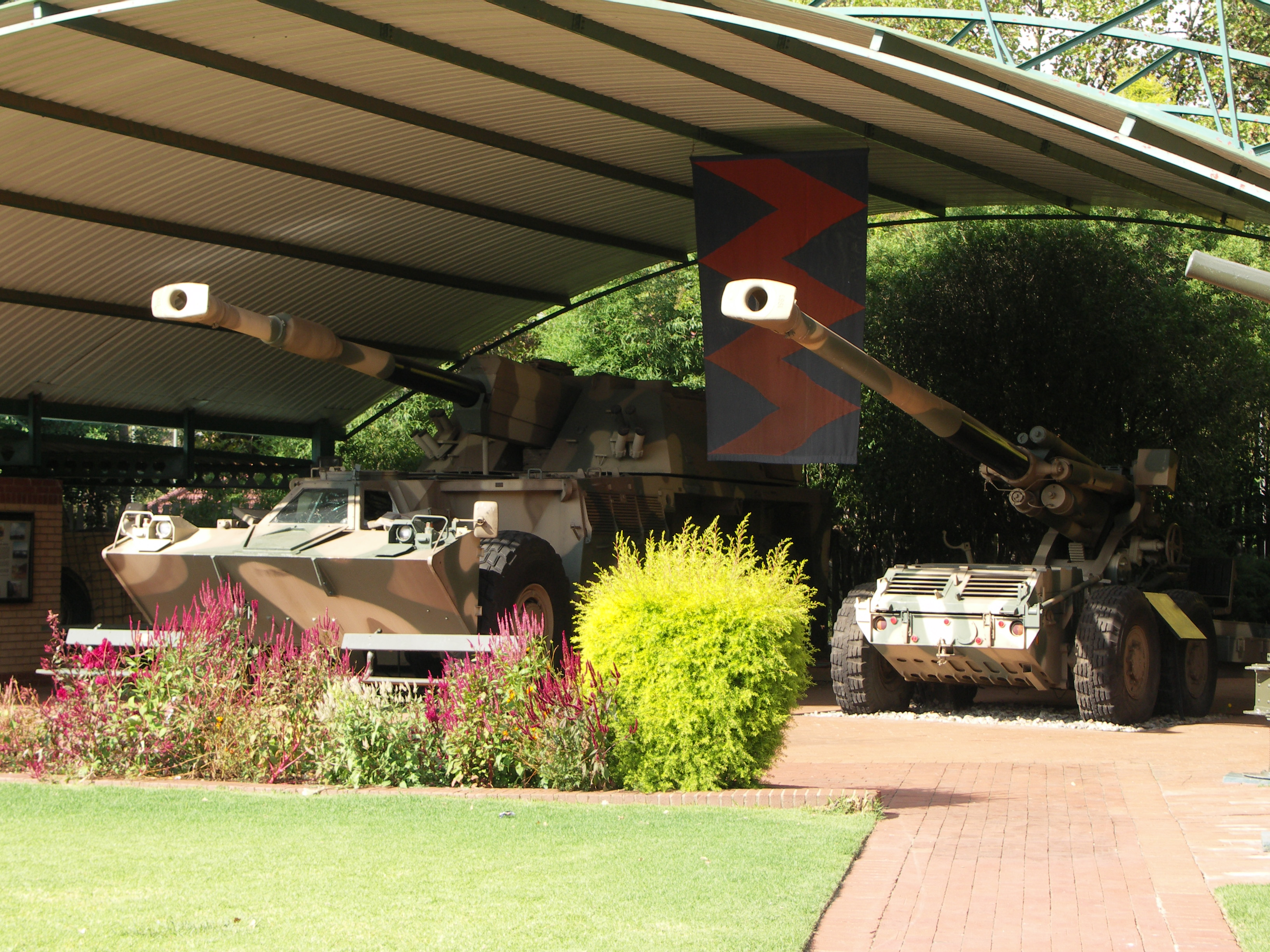 G5 and G6 Howitzers at the South African Museum of Military History, Johannesburg, South Africa